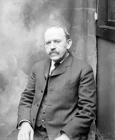 Half-length portrait of umpire Sheridan, looking at the camera, sitting at an angle in front of a backdrop in a room in Chicago, Illinois.